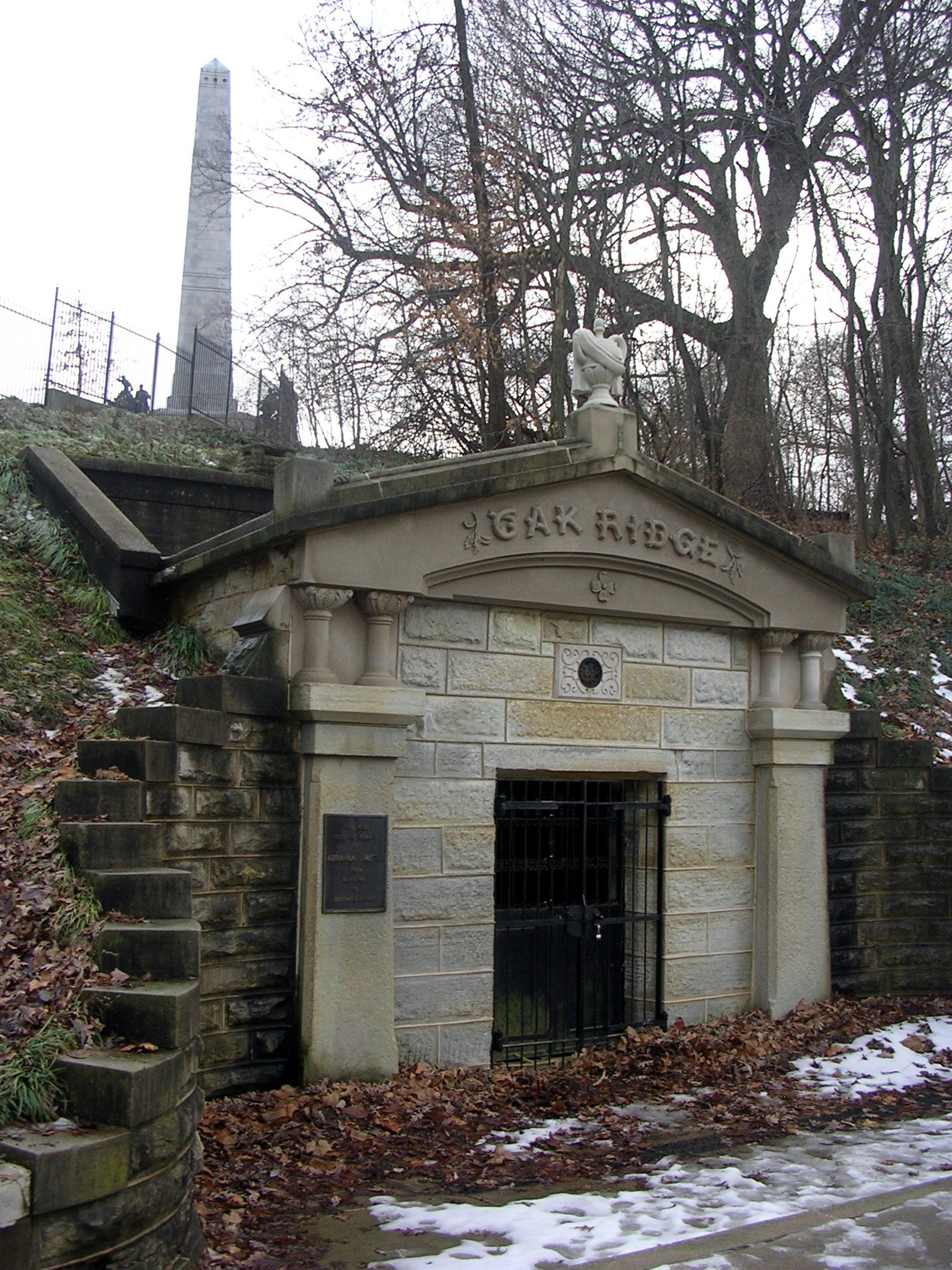 Abe Lincoln's temporary tomb in the foreground and permanent tomb in the background, Springfield, Illinois.